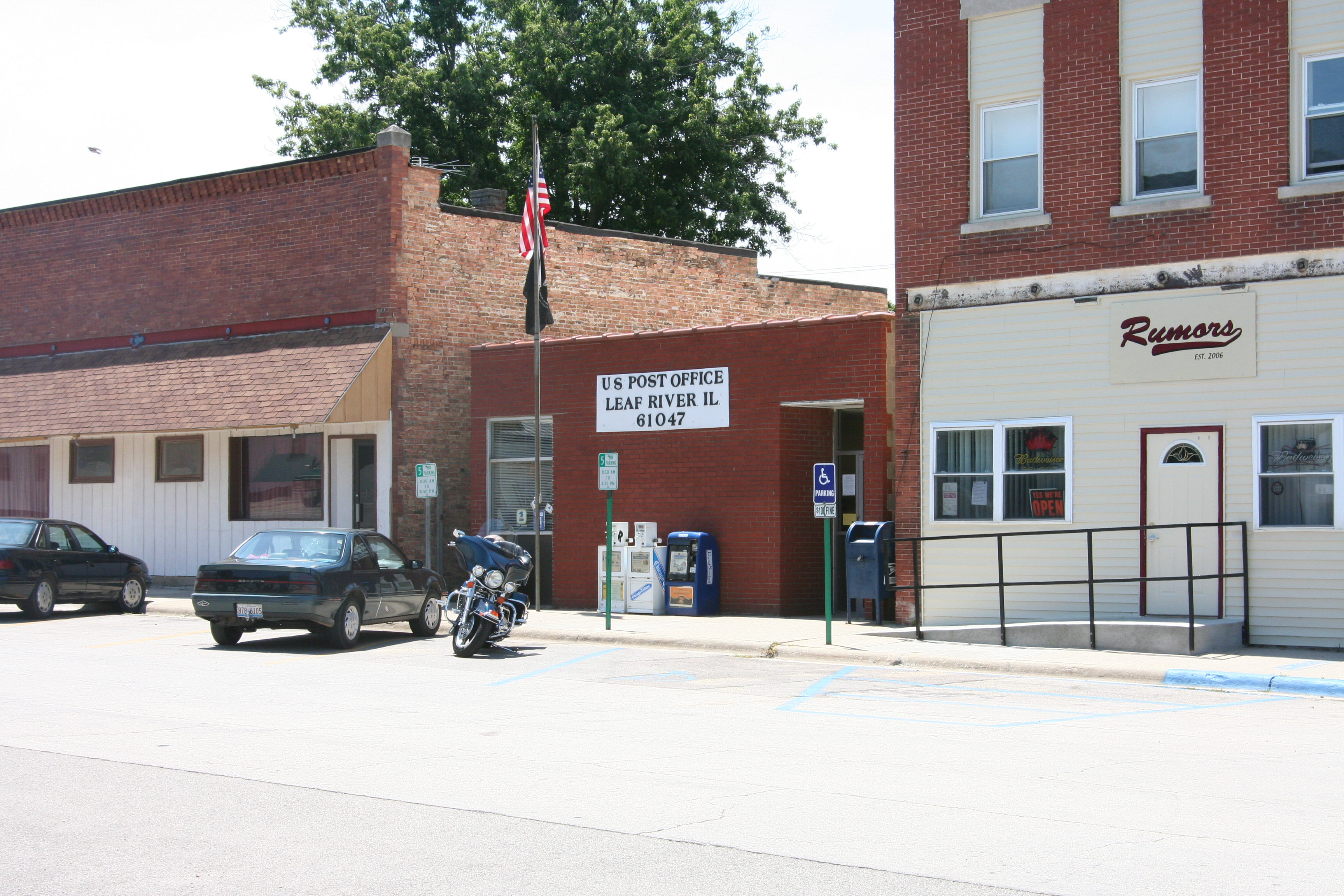 Picture of the post office in Leaf River, Illinois, USA.